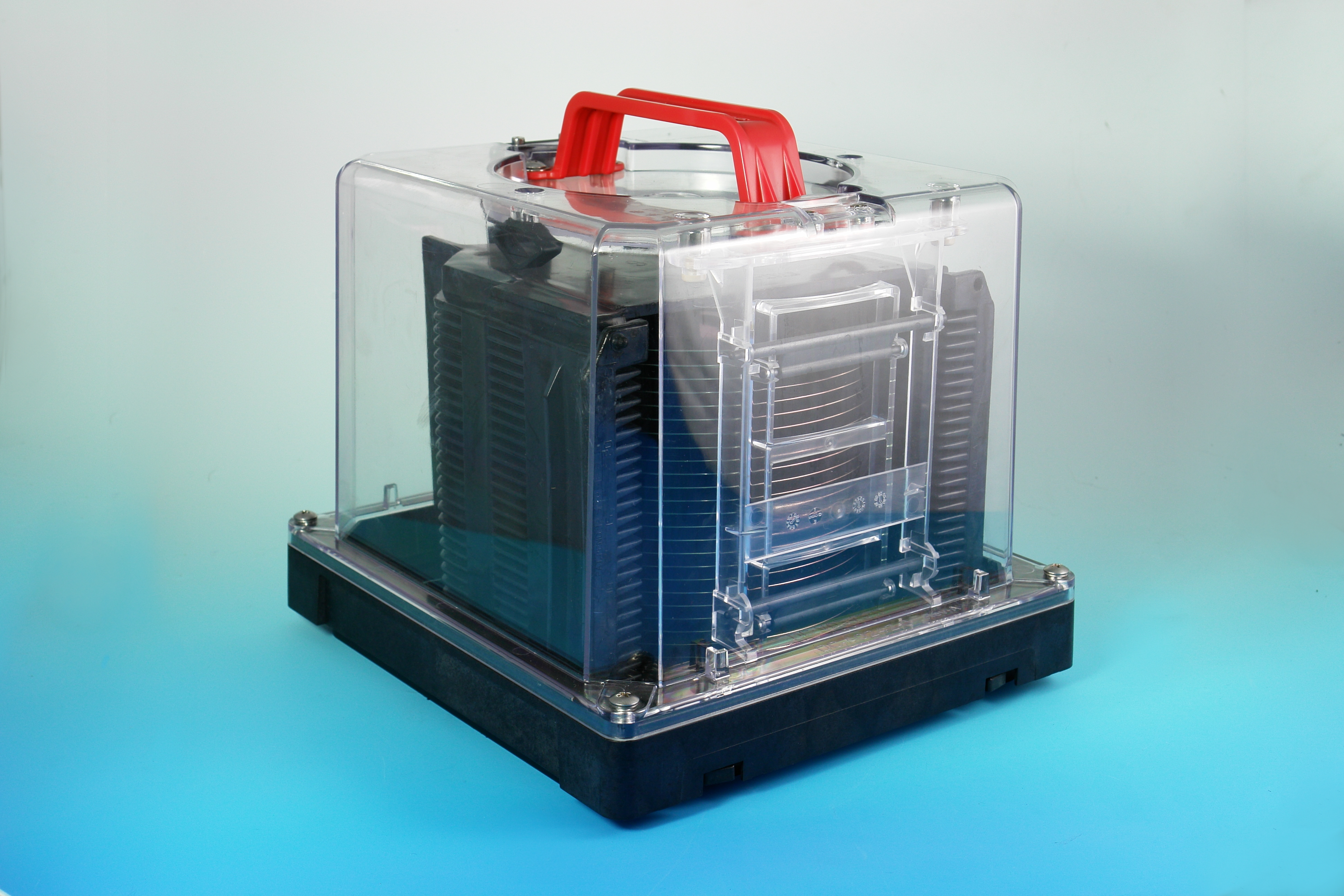 for 6 inch wafer use SMIF POD